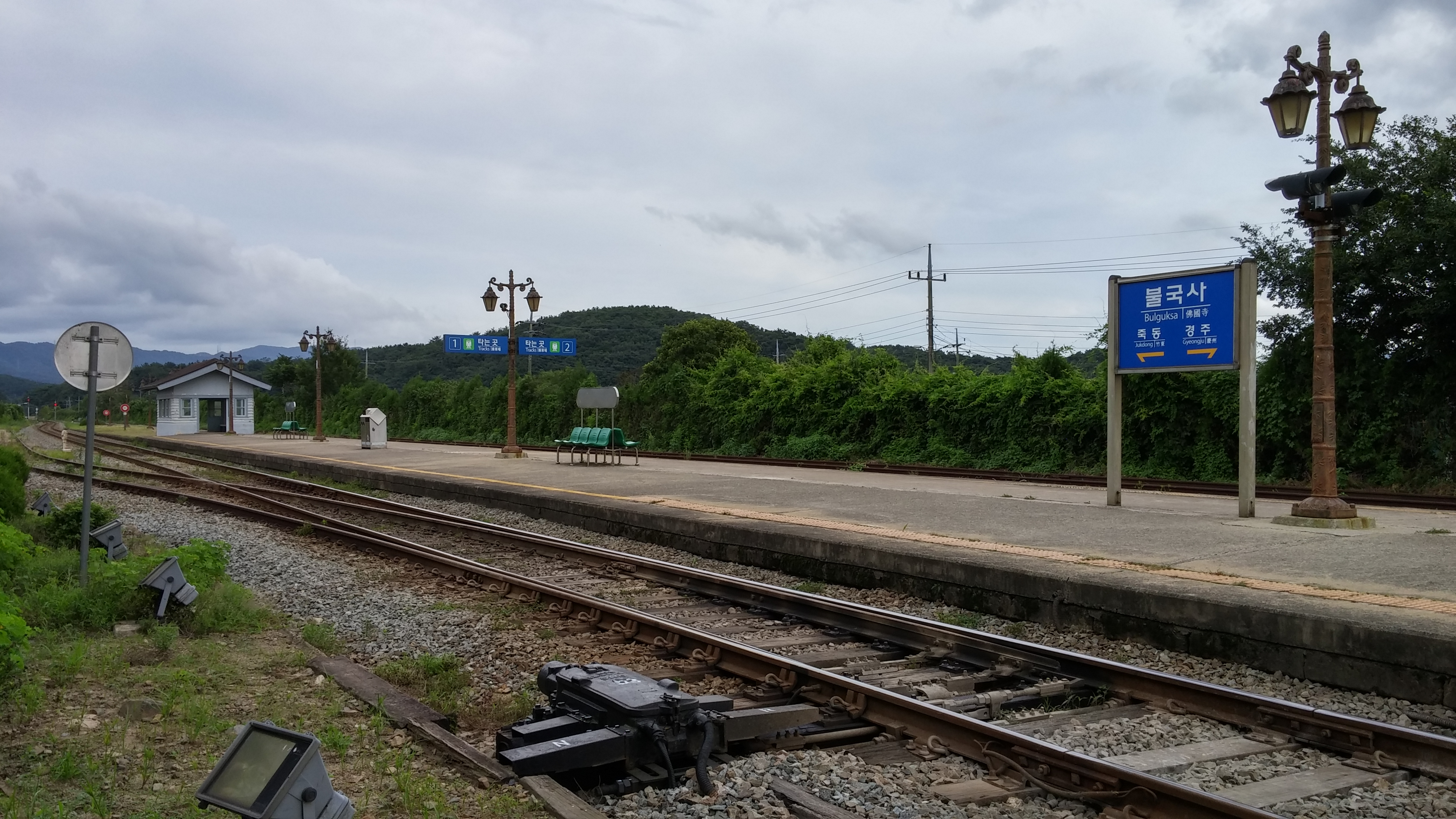 Bulguksa Station (Donghaenambu Line), Gujeong-dong, Gyeongju-si, Gyeongsangbuk-do